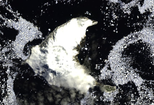 NASA Terra ASTER image of Thule (Morrell) Island, South Sandwich Islands, in the Southern Atlantic Ocean